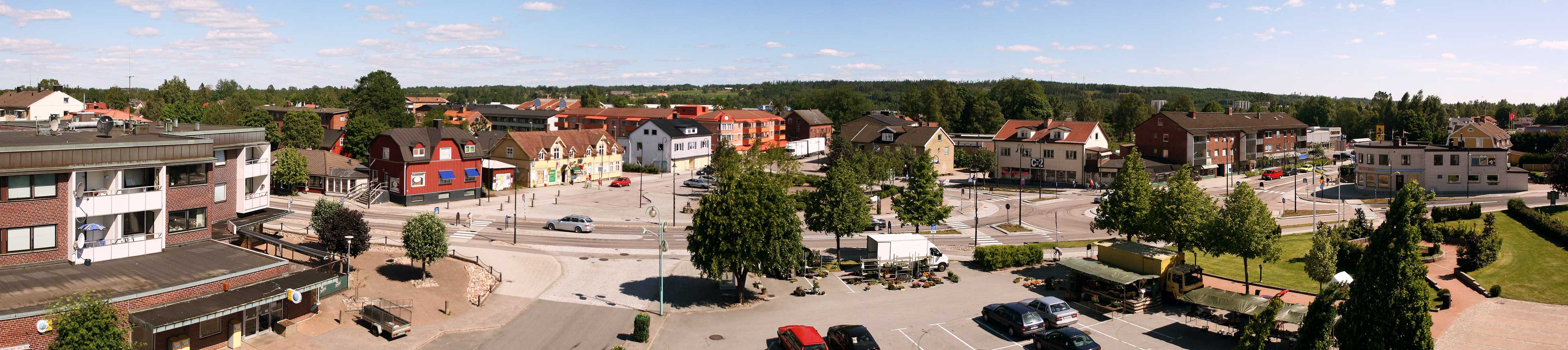 View over central Smålandsstenar from Torghuset.